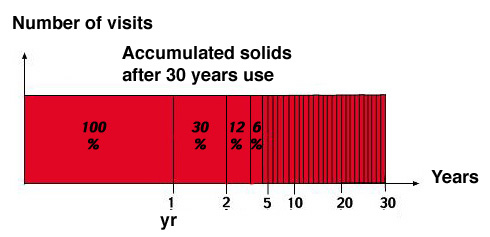 Diagram showing the accumulated content in a long term composting process. Author is Carl Lindstrom